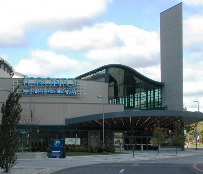 Picture of the Toronto Centre for the Arts taken by PFHLai.